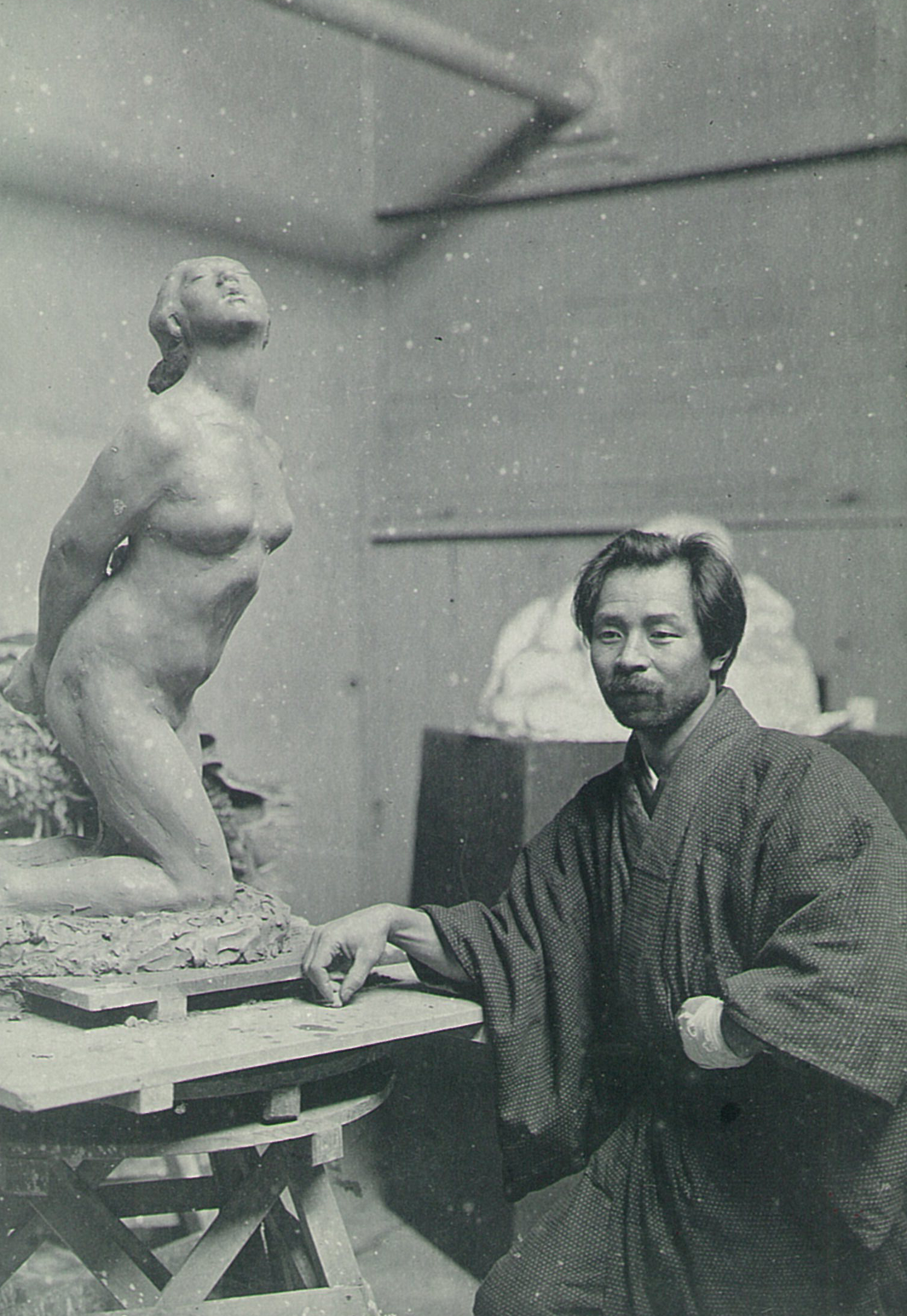 Sculptor Ogiwara Morie 1879-1910